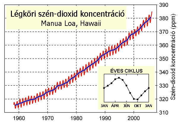 This figure shows in hungarian the history of atmospheric carbon dioxide concentrations as directly measured at Mauna Loa, Hawaii.